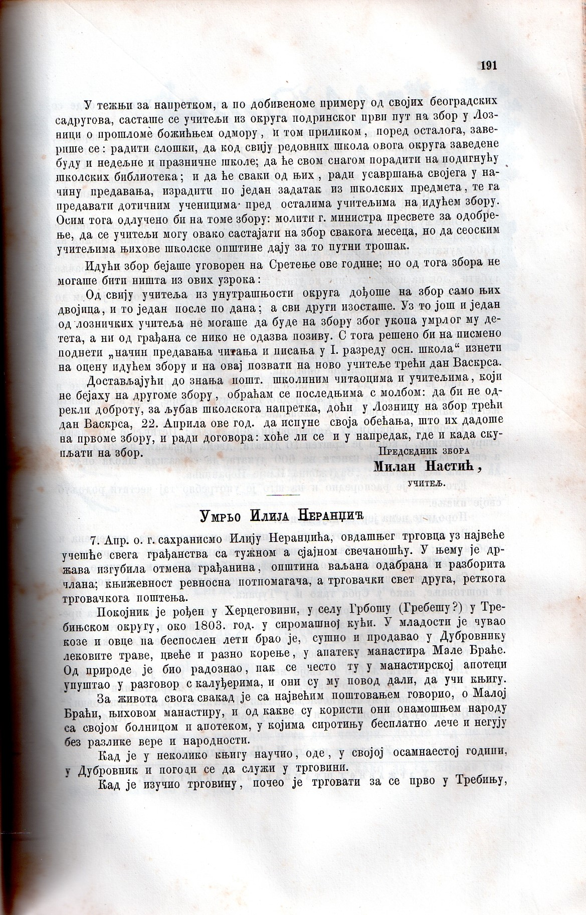 Škola magazine, number 12, page 191, 20 April 1869. Srpski (latinica): Škola časopis, Umro Ilija Nerandžić, broj 12, str. 191, 20. april 1869, Beograd, Srbija